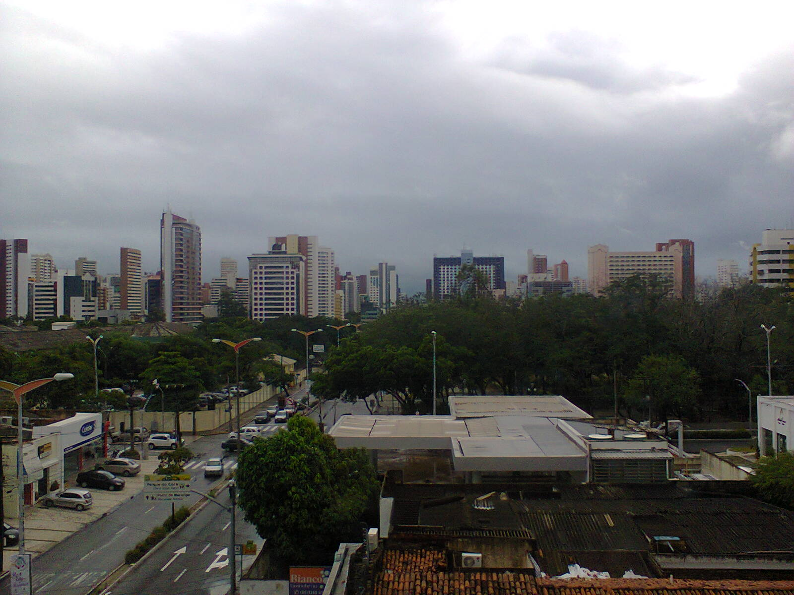 The neighbourhood Aldeota in Fortaleza, Brazil.